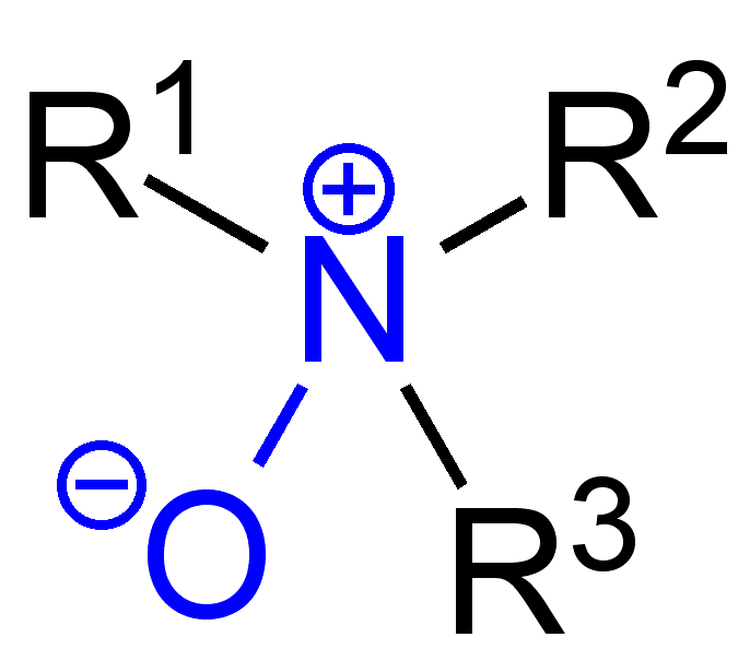 Amine_Oxides_General_Formulae